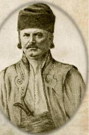 Old picture of Iancu Jianu taken from Paul Constant' novel "Iancu Jianu", released in 1939.jpg